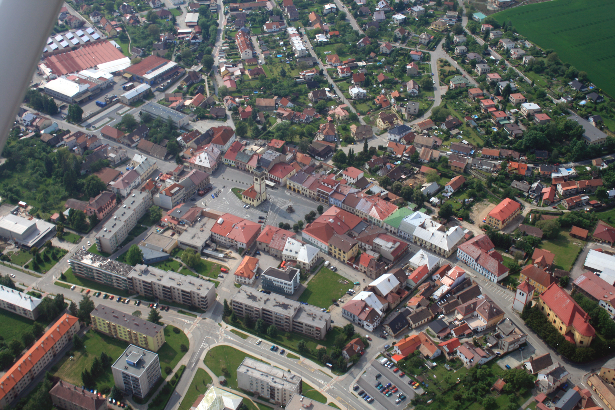 Centrum of town Dobruška from air, eastern Bohemia, Czech Republic